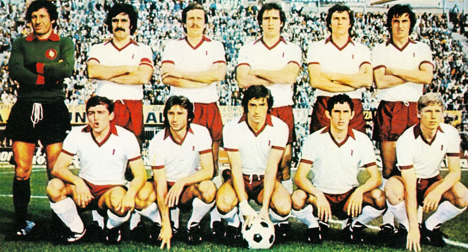 Bologna (Italy), Communal Stadium, October 5, 1975. A line-up of A.C. Torino took to the pitch in the away defeat versus Bologna F.C. (0-1), Matchday 1 of the Italian League 1975–76 Serie A. From left to right, standing: L. Castellini, C. Sala (captain), R. Zaccarelli, F. Graziani, R. Mozzini, N. Santin; crouched: E. Pecci, R. Salvadori, P. Pulici, P. Sala, F. Gorin.